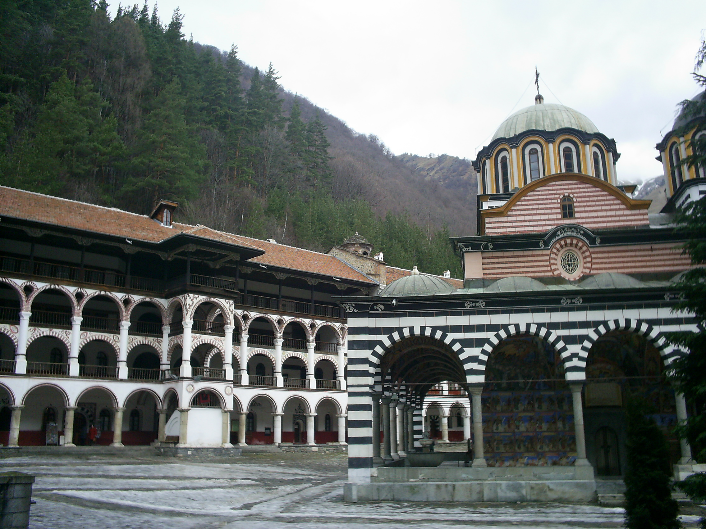 Rila Monastery, Rila, Bulgaria